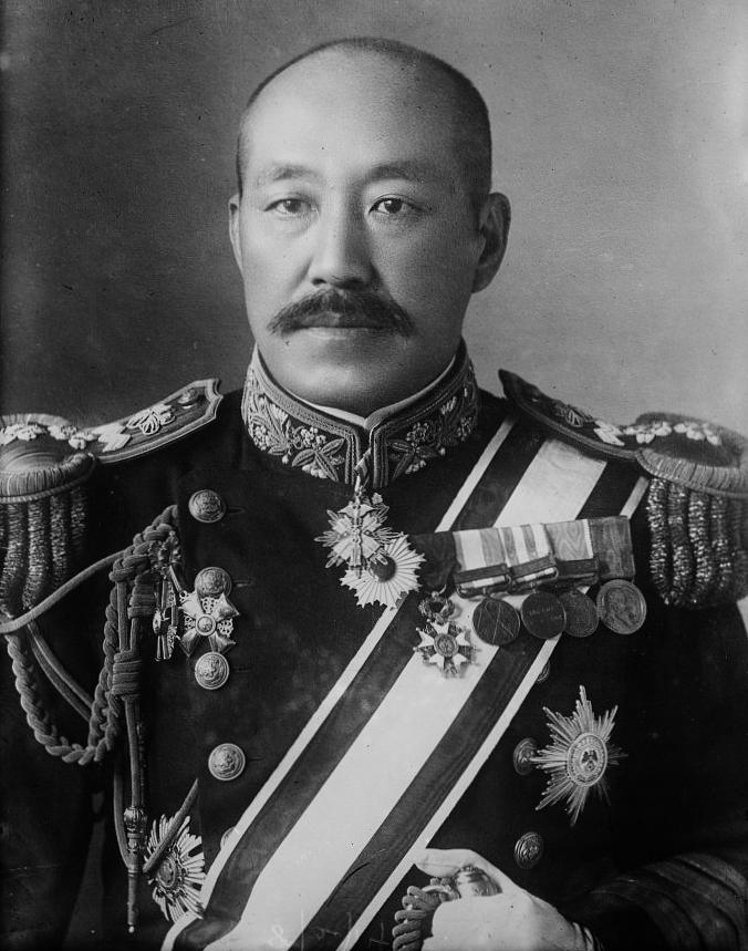 Vice Adm. Rokuro Yashiro.